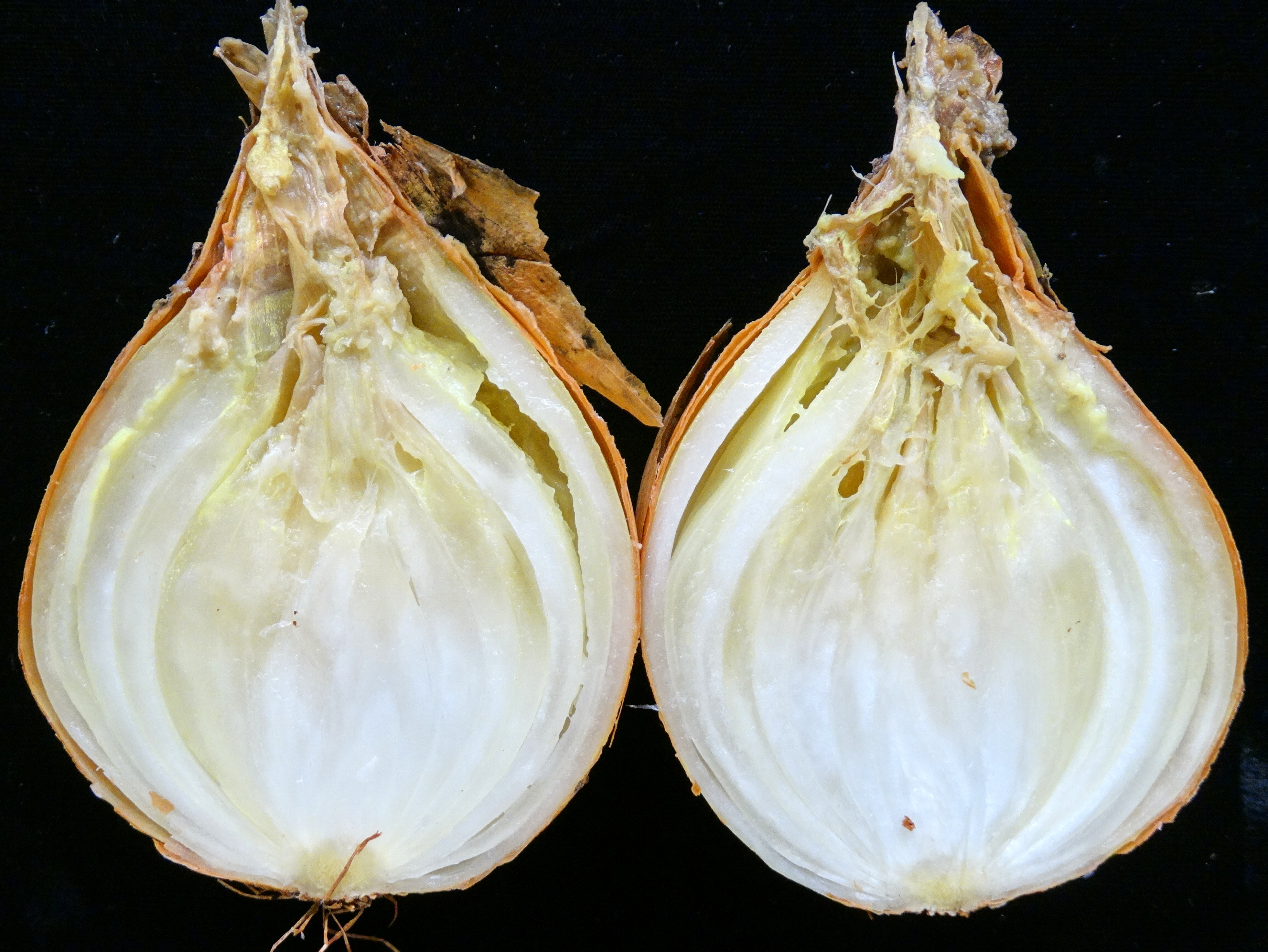 Pathogen(s): Bacterial soft rot is commonly caused by Erwinia carotovora subsp. carotovora (synonym for Pectobacterium carotovorum subsp. carotovorum) or E. chrysanthemi (synonym for Dickeya chrysanthemi)